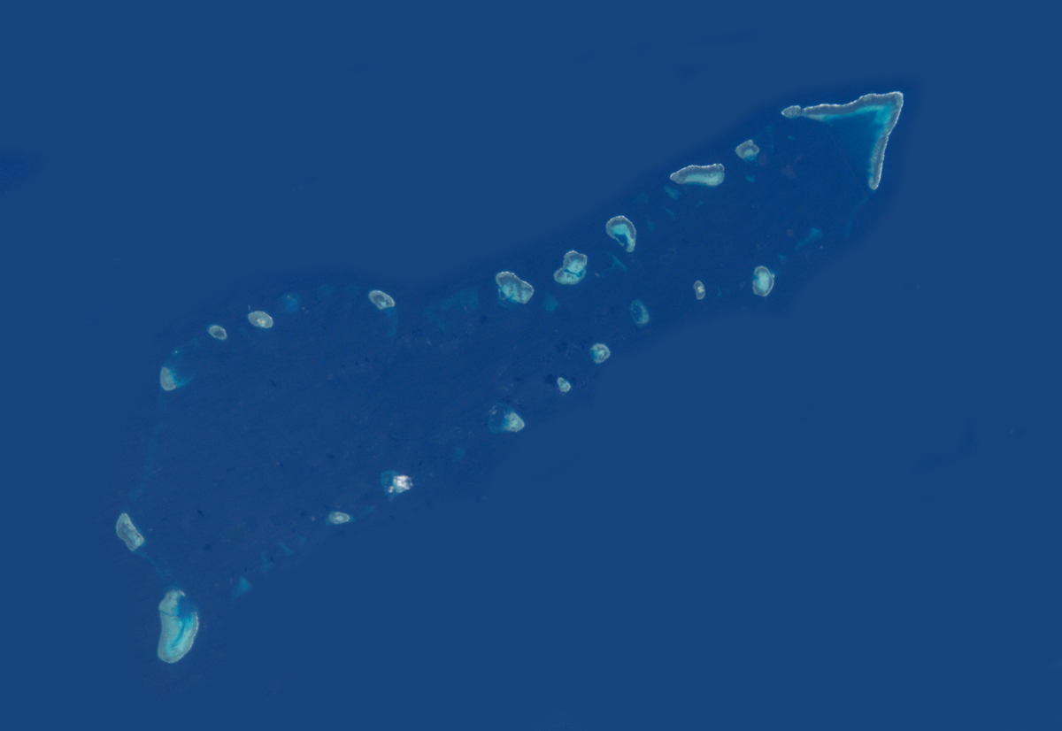 Union Bank & Reefs in Spratly Islands.